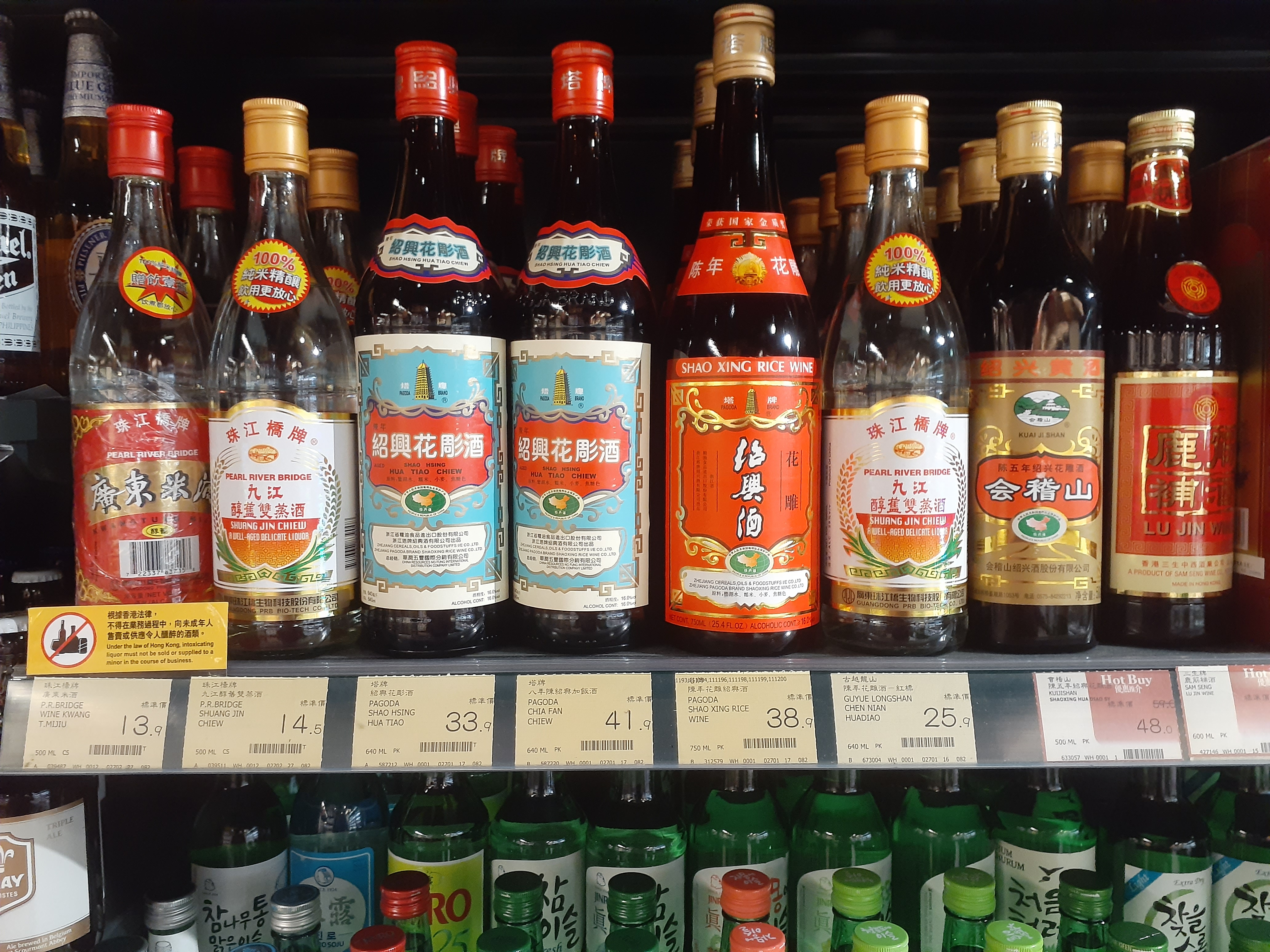 HK 中環 Central 德輔道中 77 Des Vouex Road 盈置大廈 Nexxus Building Market Place by Jasons in July 2020